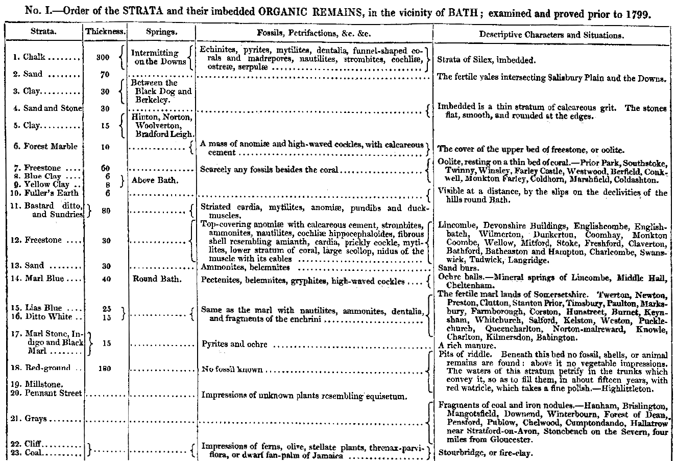 Order of the strata and their imbedded organic remains in the vicinity of Bath by William Smith, 1799, printed 1844